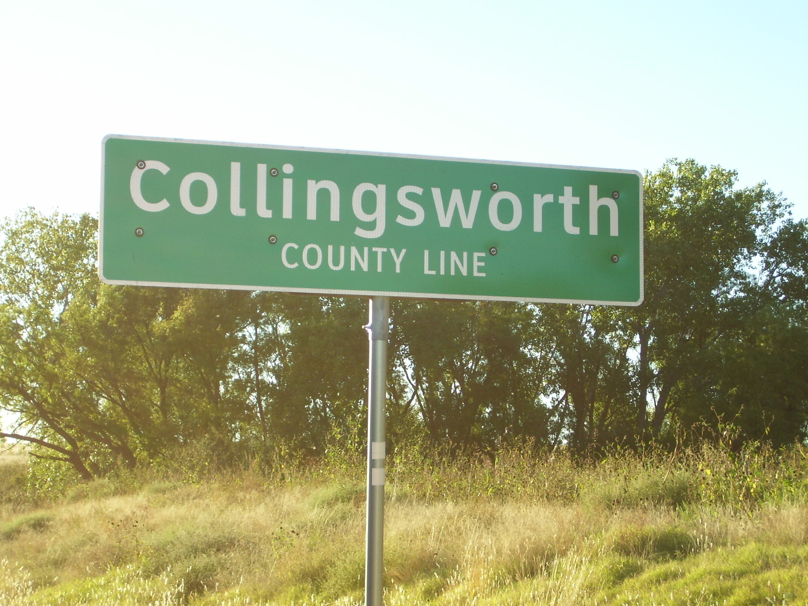 Collingsworth county line sign on Texas State Highway 203 at the Texas/Oklahoma state line.